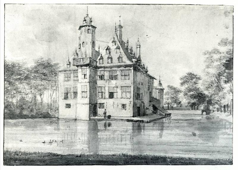 Castle Te Voorn